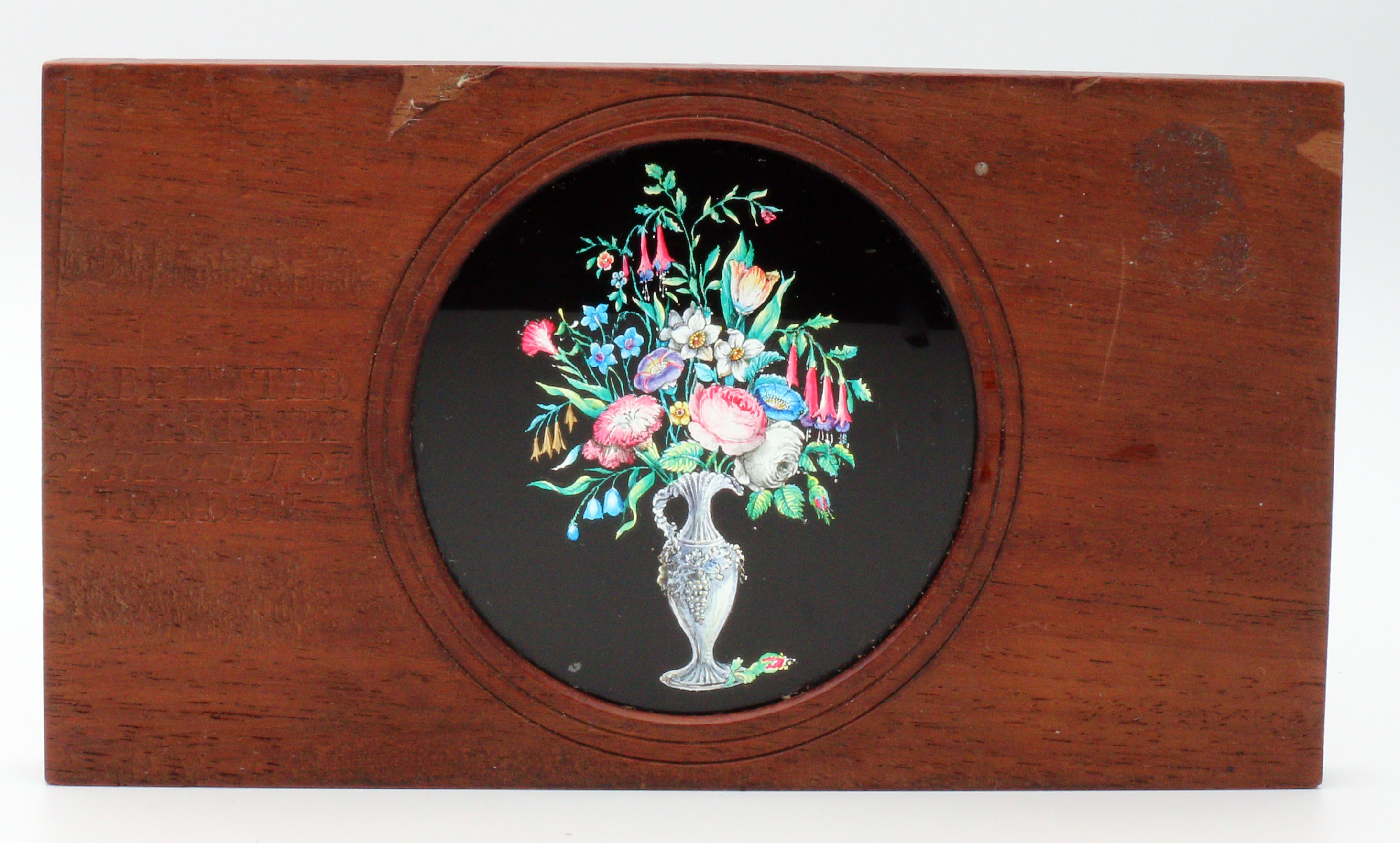 Magic lantern slide by Carpenter and Westley, 24 Regent St, London. The frame contains an image of hand painted flowers in a vase.